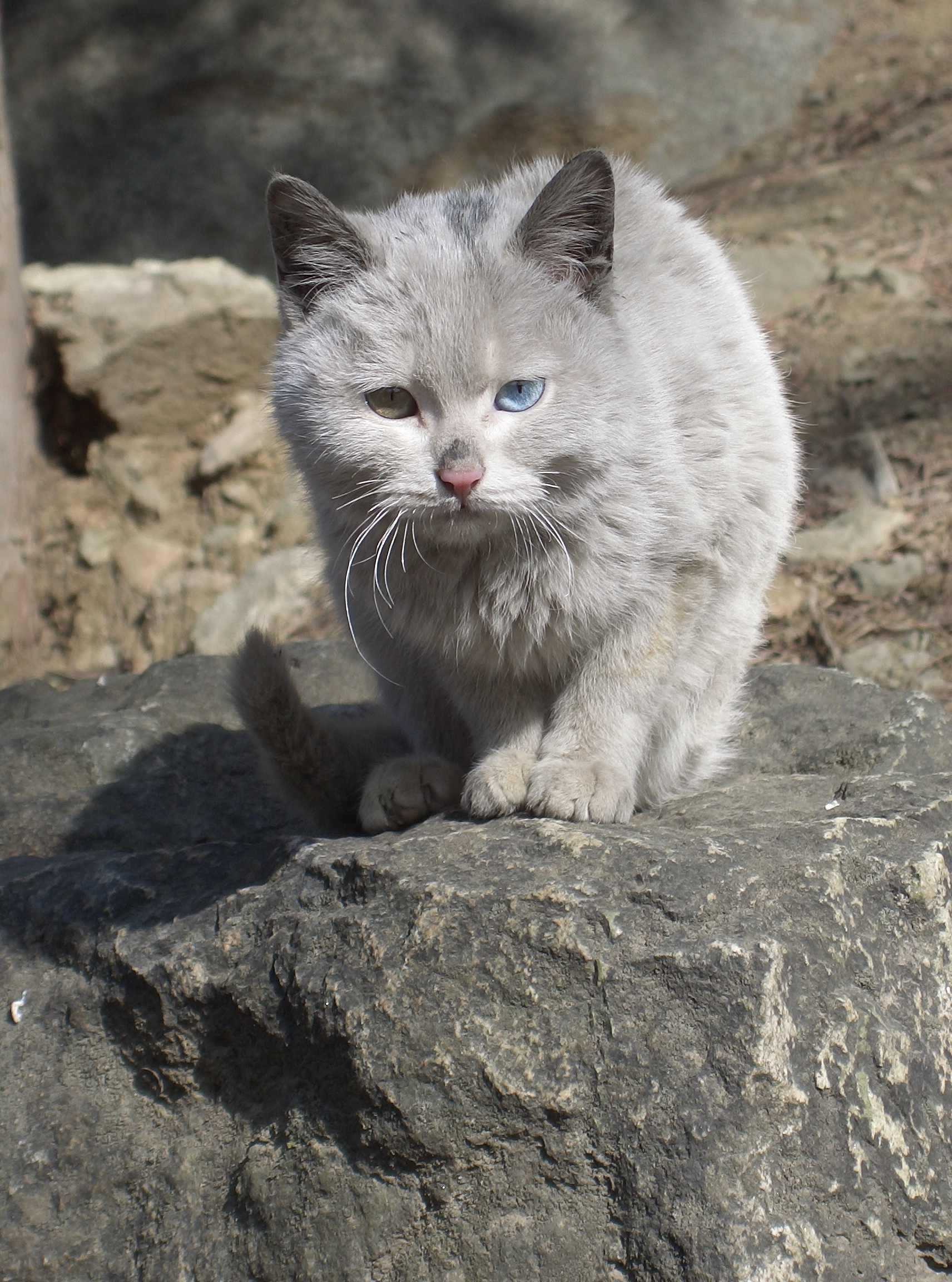 This stray cat has distinctive different coloured eyes. Taken at Mt Tai, Shandong province, China.